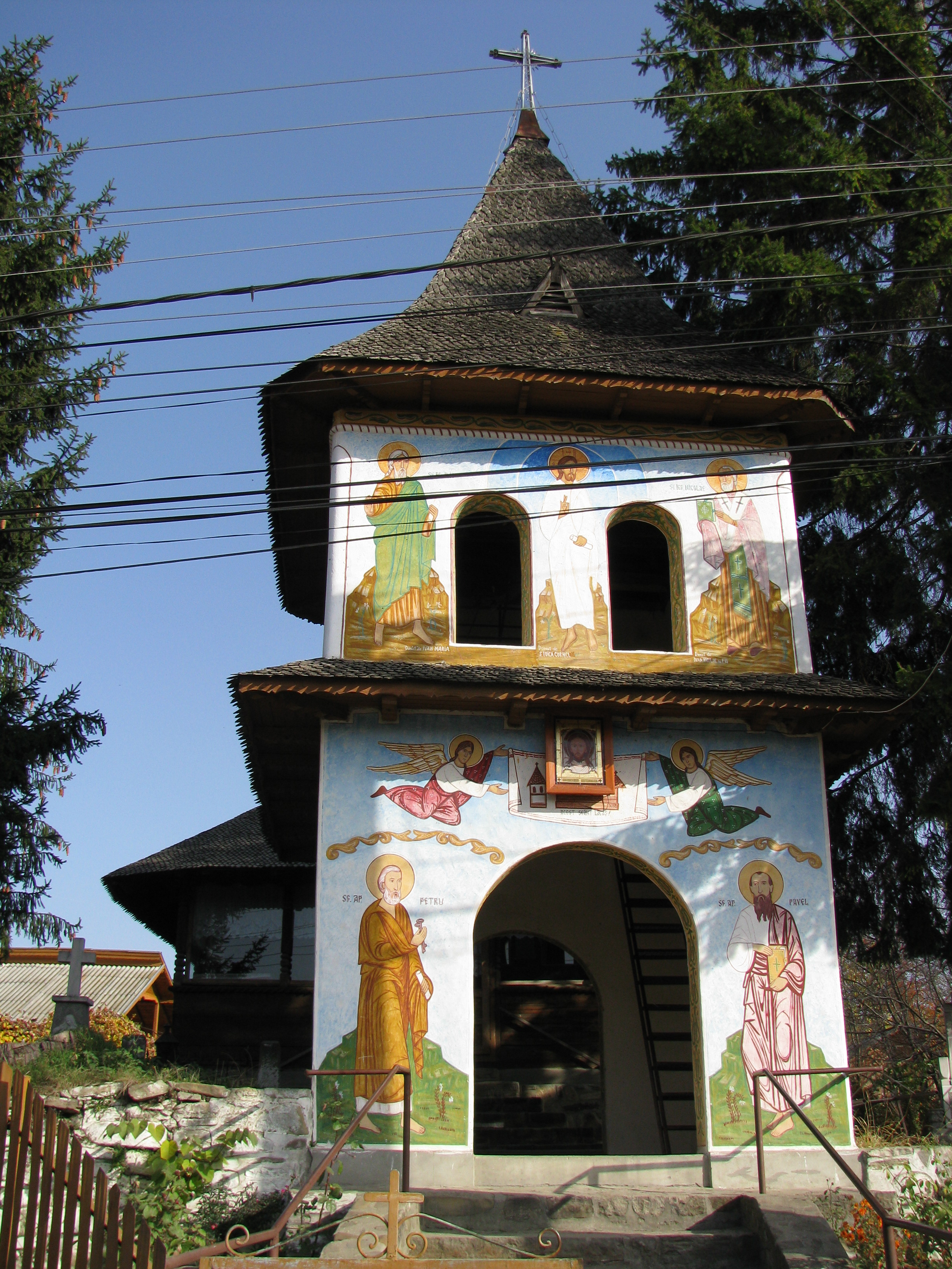 Wooden church "Sf. Nicolae Vechi" from Starchiojd village, Starchiojd commune, Prahova county, Romania